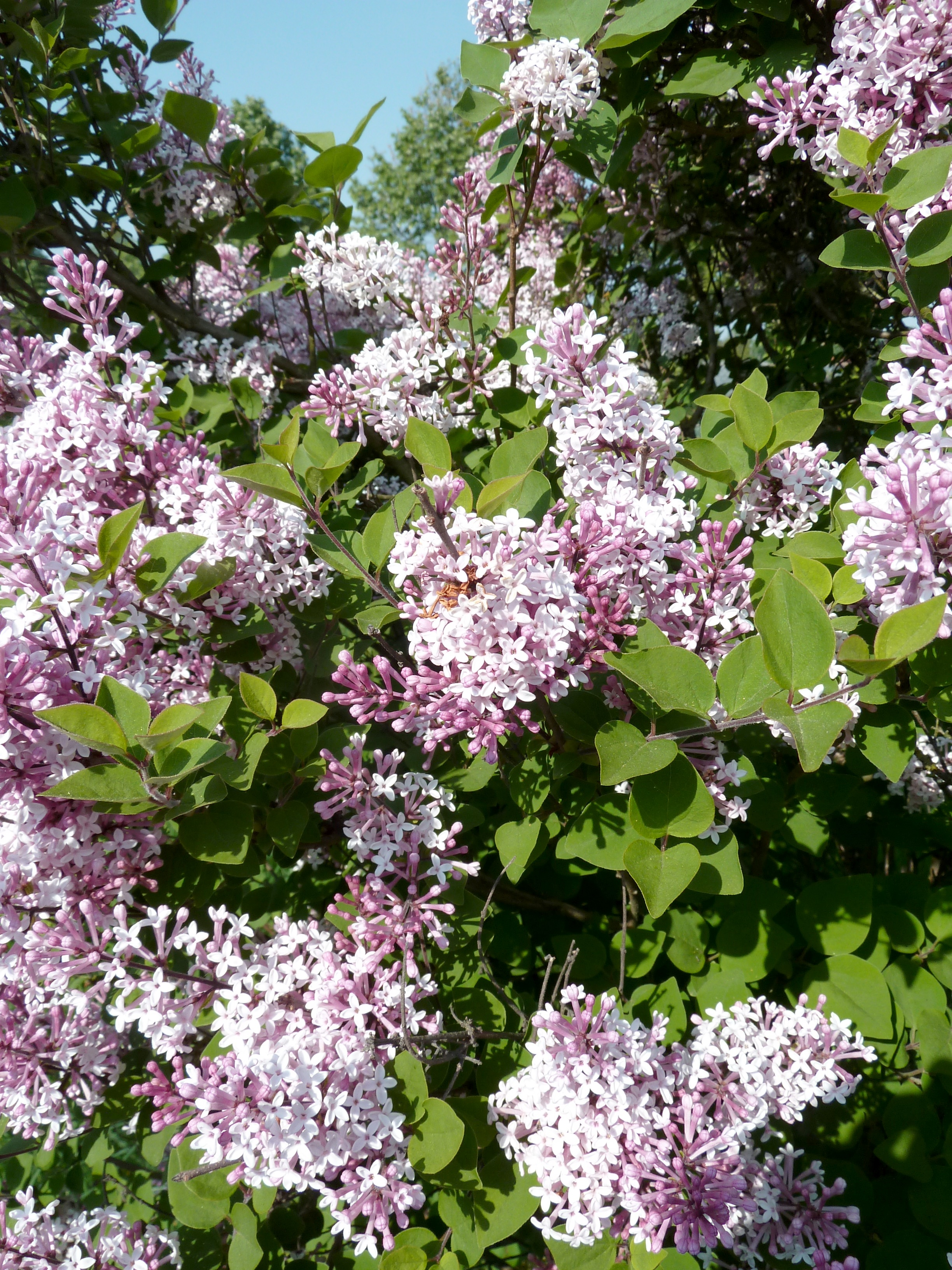 Syringa pubescens in Arboretum de l'école du Breuil (Paris, France)